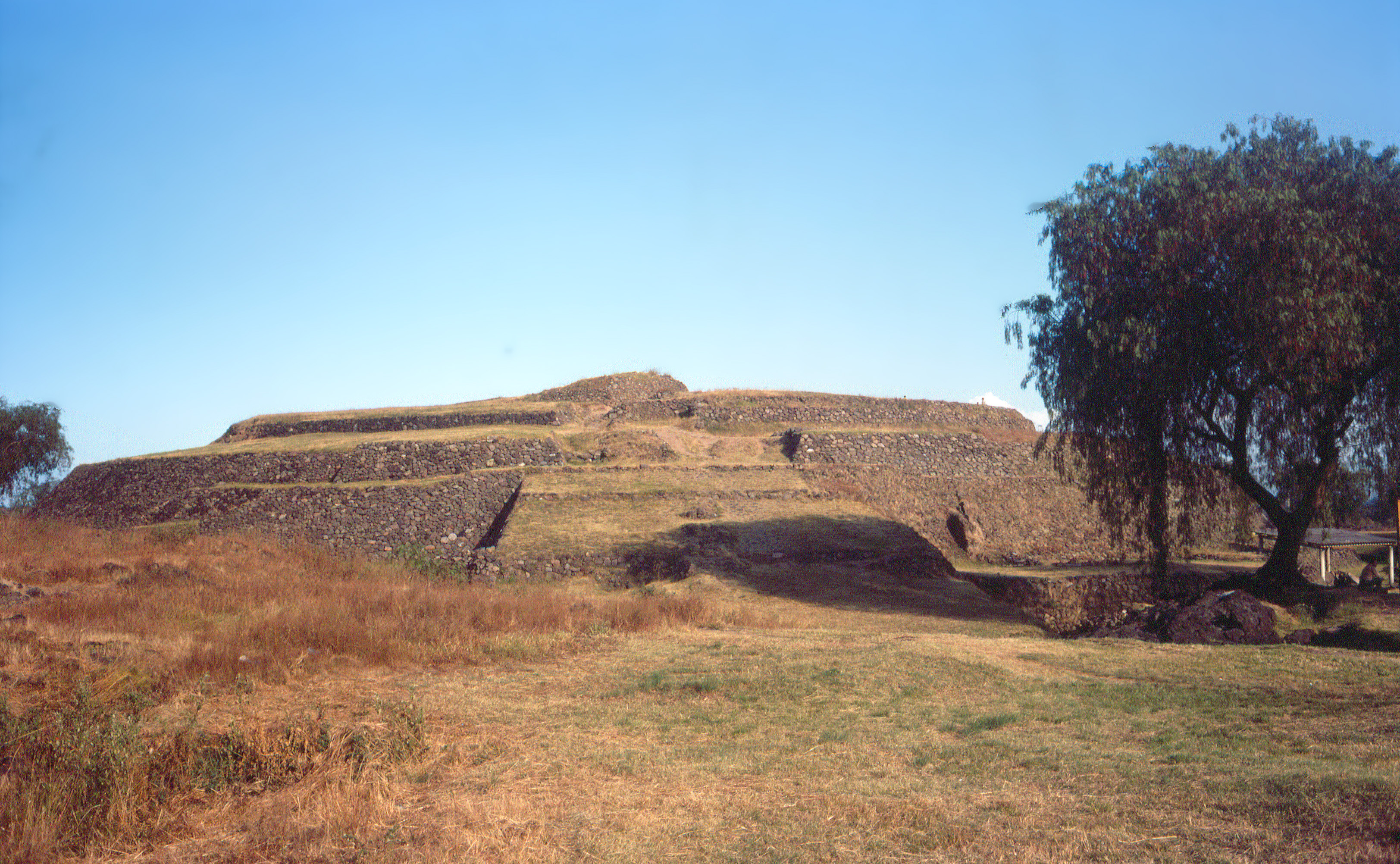 Cuicuilco, Federal District, Mexico: round pyramid.